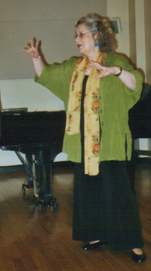 Mira Zakai, Professor of Voice and Alto singer from Israel, at a Master class in New York